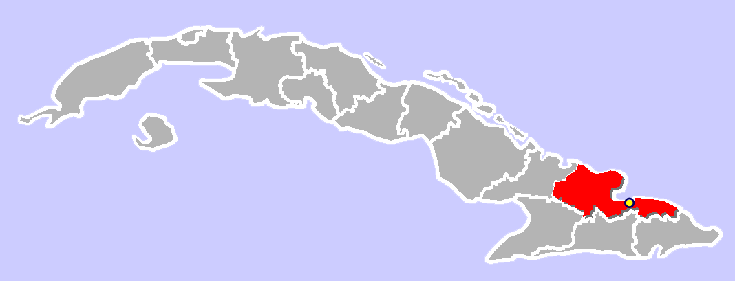 Location of Mayarí, Cuba